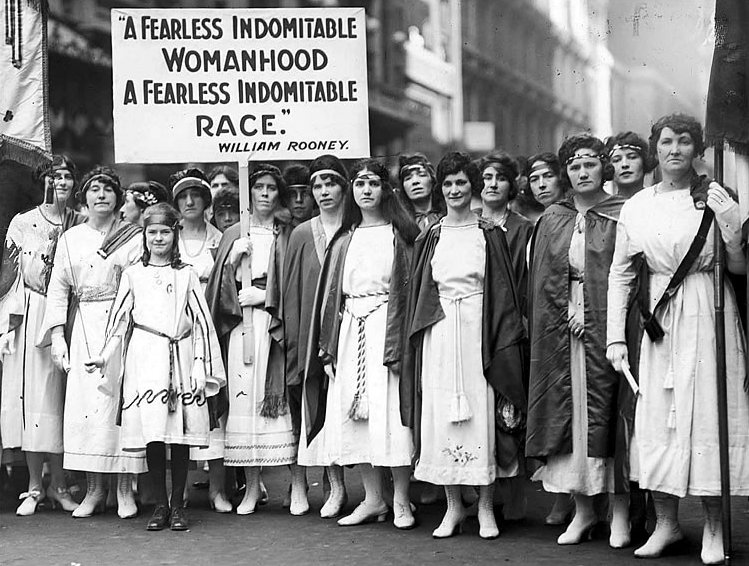 "A year after women won full voting rights, these women joined in the St. Patrick's Day Parade on Fifth Avenue on March 27, 1921."